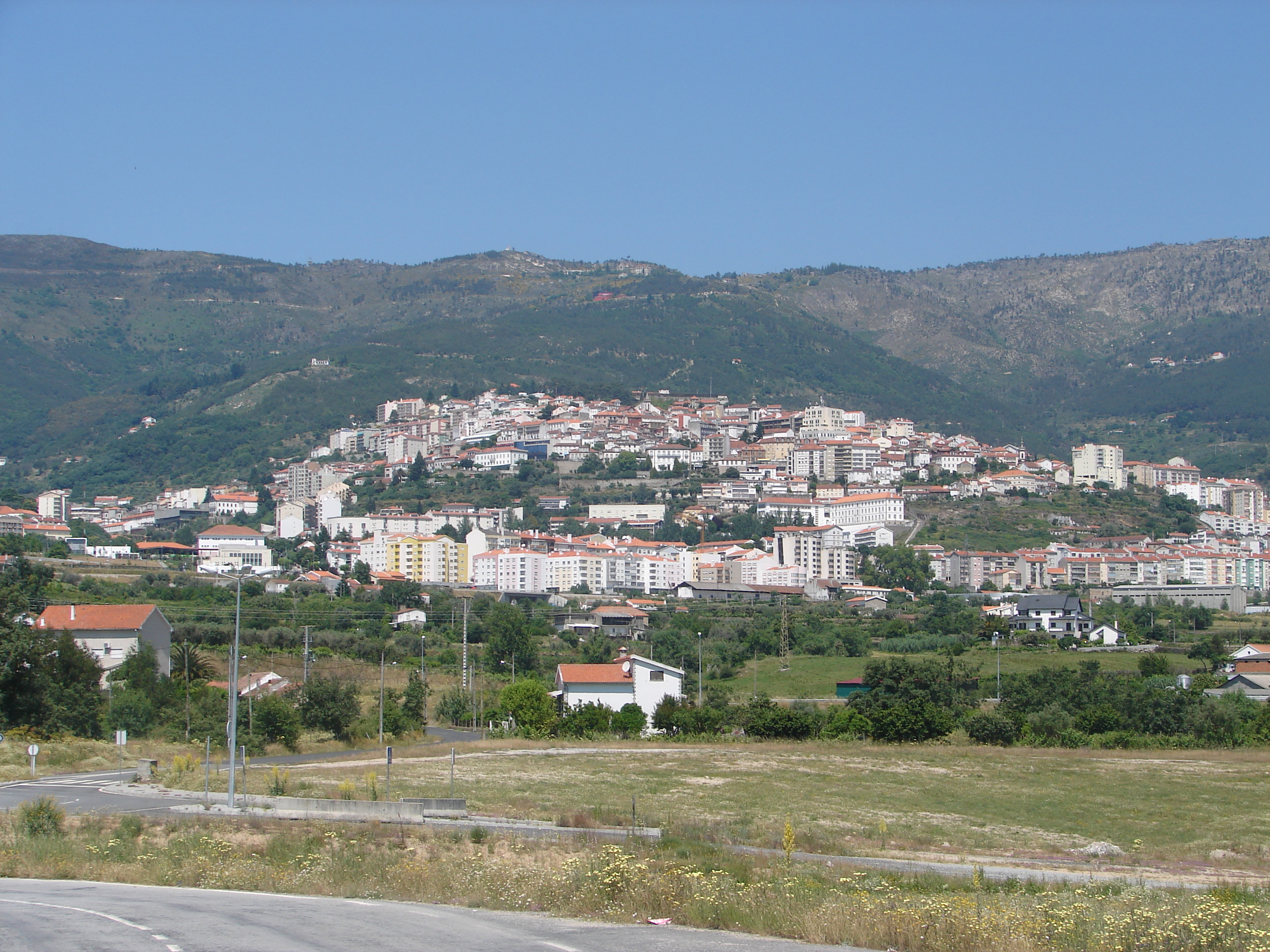 This is how the city looks like when looked from the aerodrome